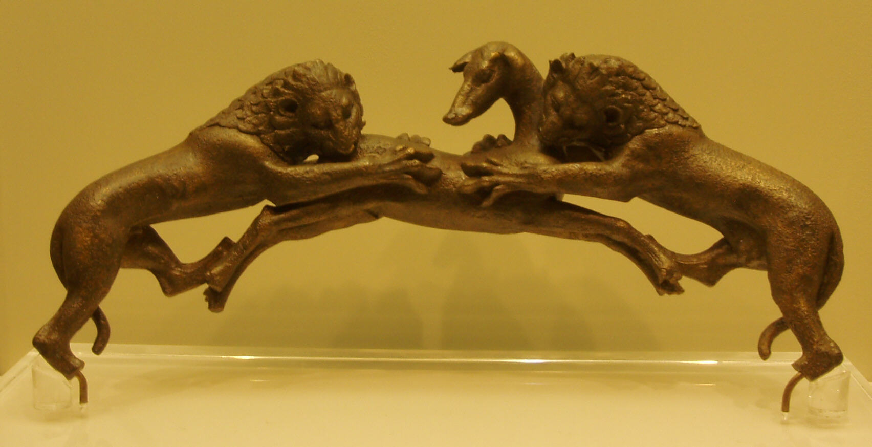 Bronze handle : two lions attacking a deer (480 BCE). Probably attic workshop.